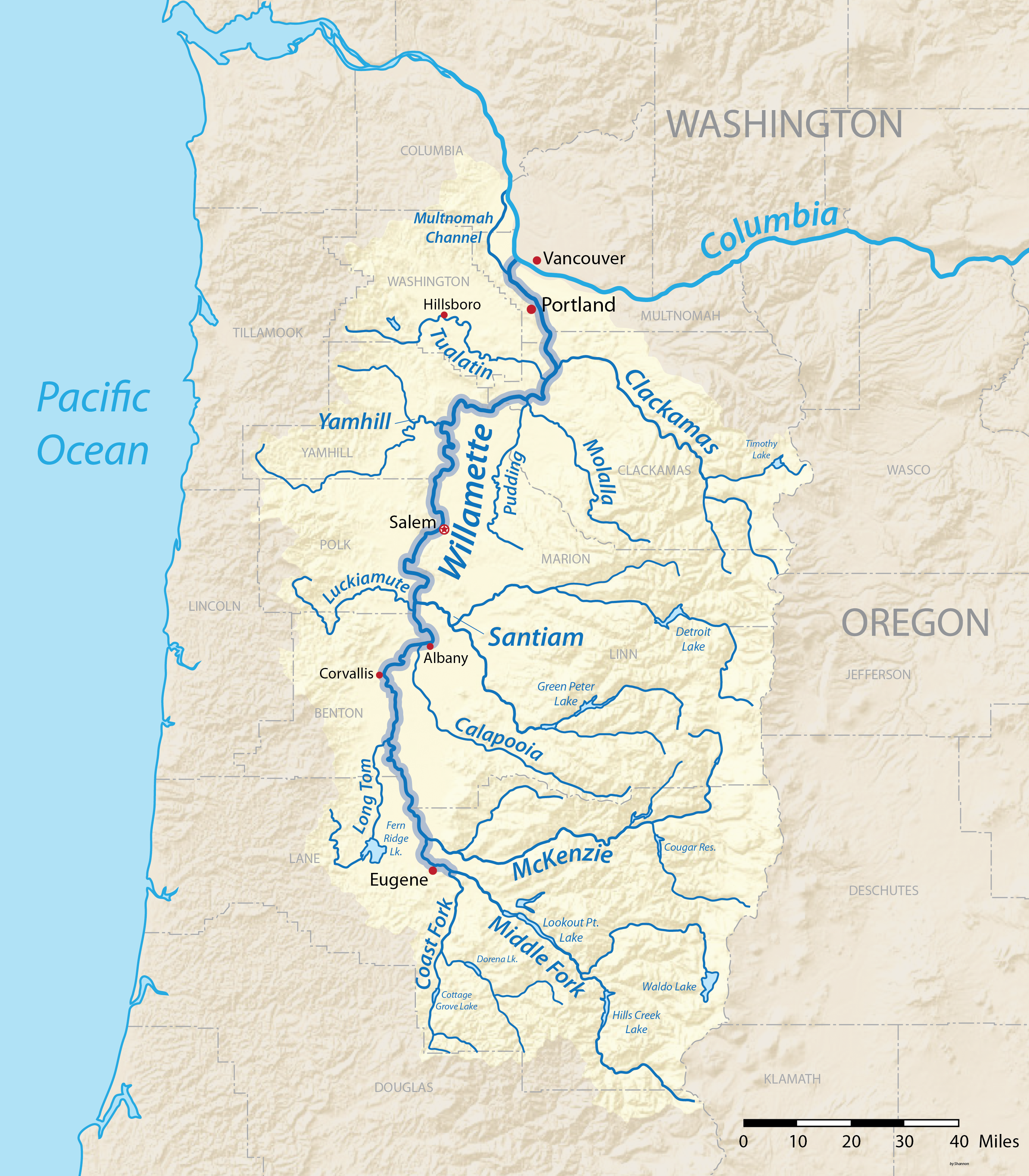 Map of the Willamette River Basin in Oregon, USA, made using USGS National Map data. Intended to replace my earlier work File:Willametterivermap.jpg